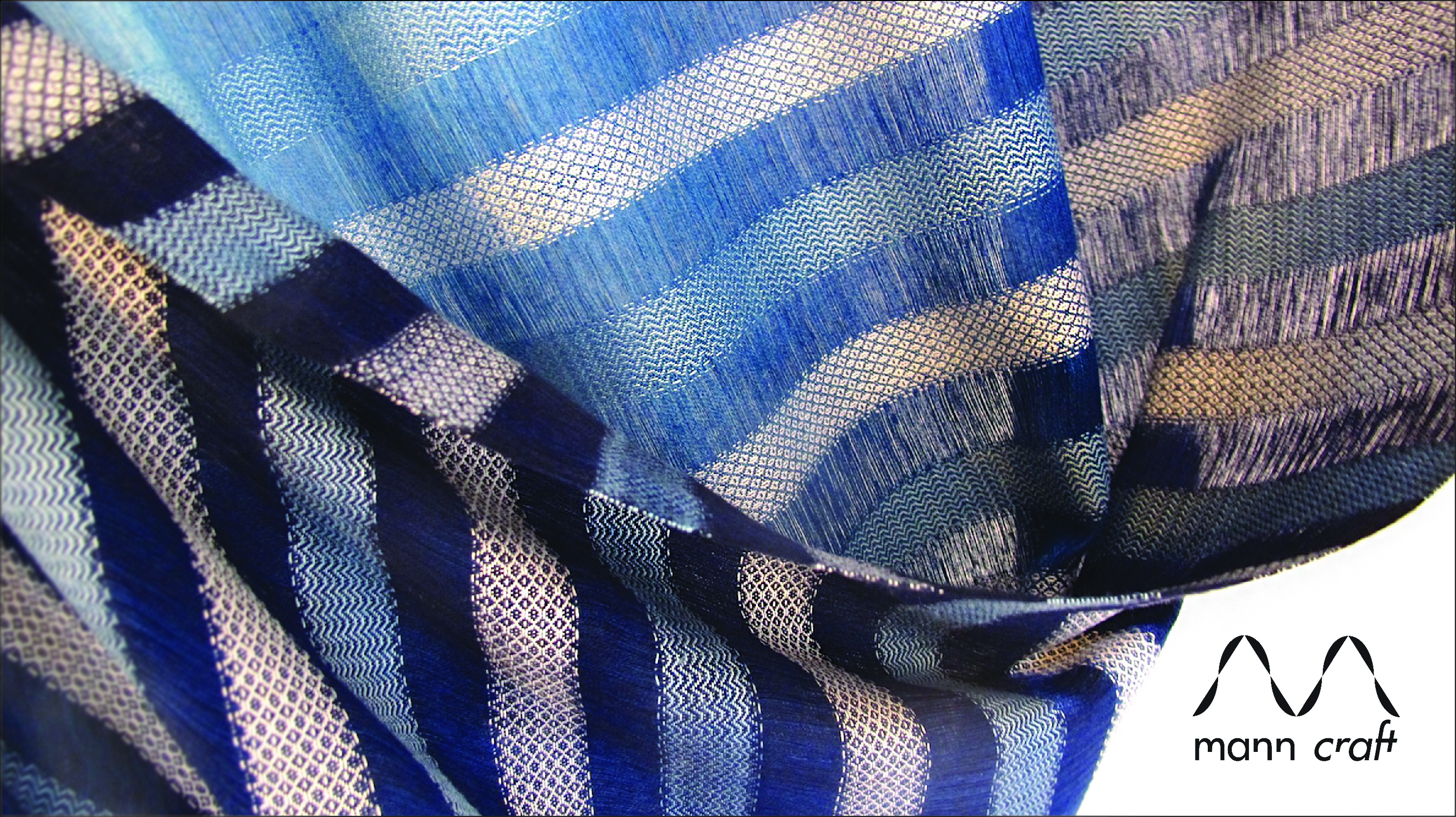 mann craft handwoven natural dyed textile.